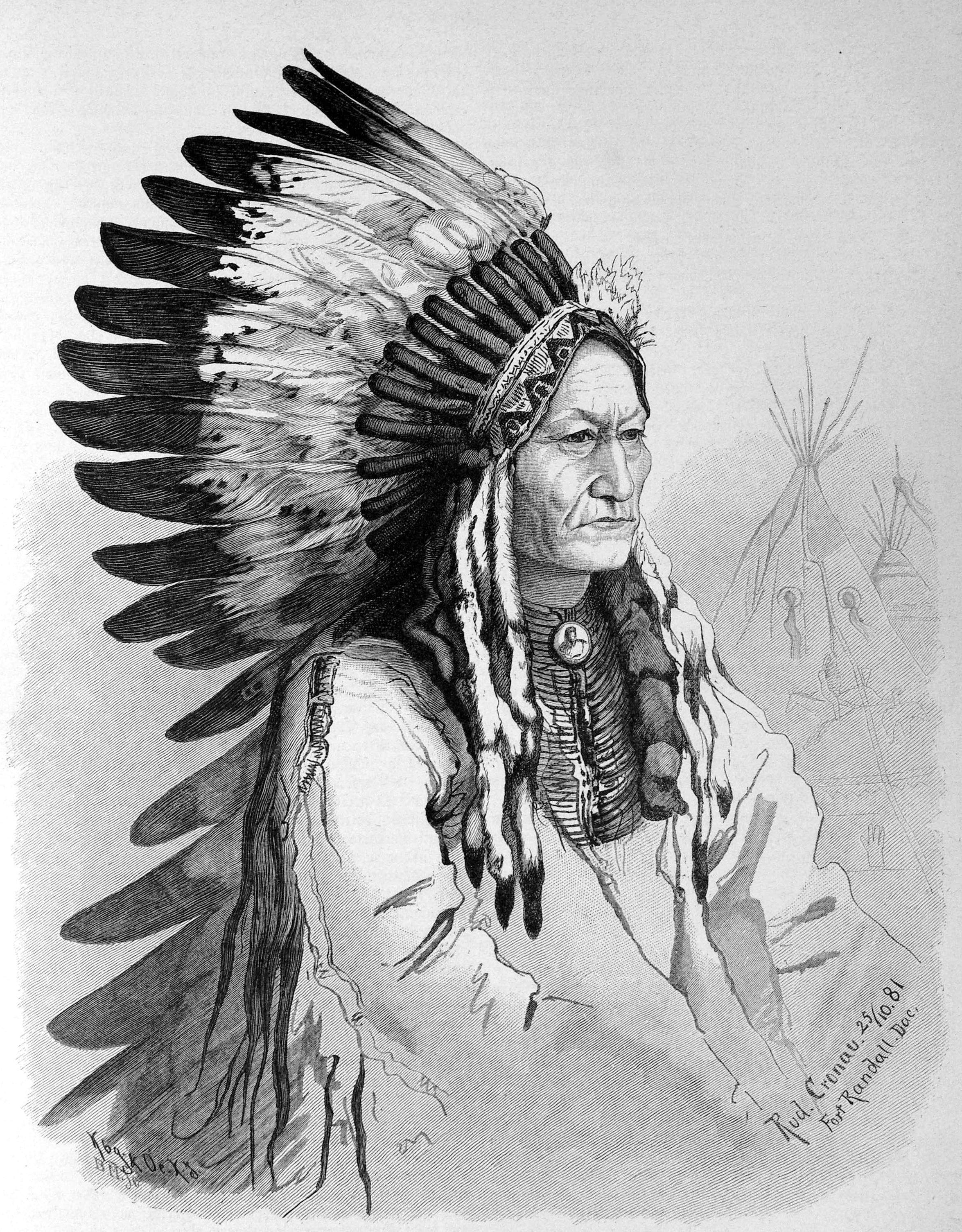 caption: "Sitting Bull. Nach der Natur gezeichnet von dem Specialartisten der „Gartenlaube“ Rudolf Cronau."